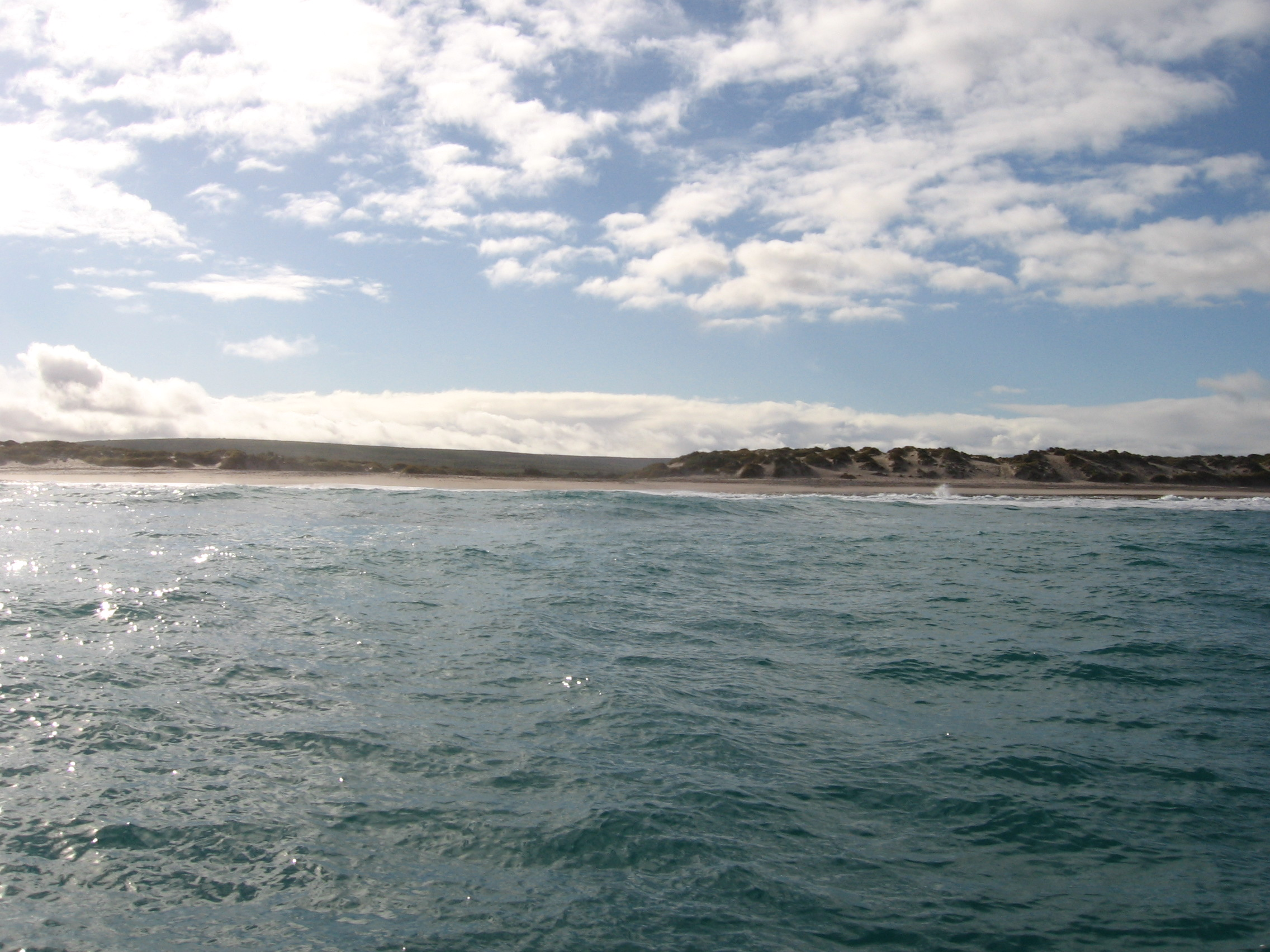 Entrance to Wittecarra Gully, mouth of Wittecarra Creek (barred by dune), a smal intermittent watercourse, taken from a short distance out to sea